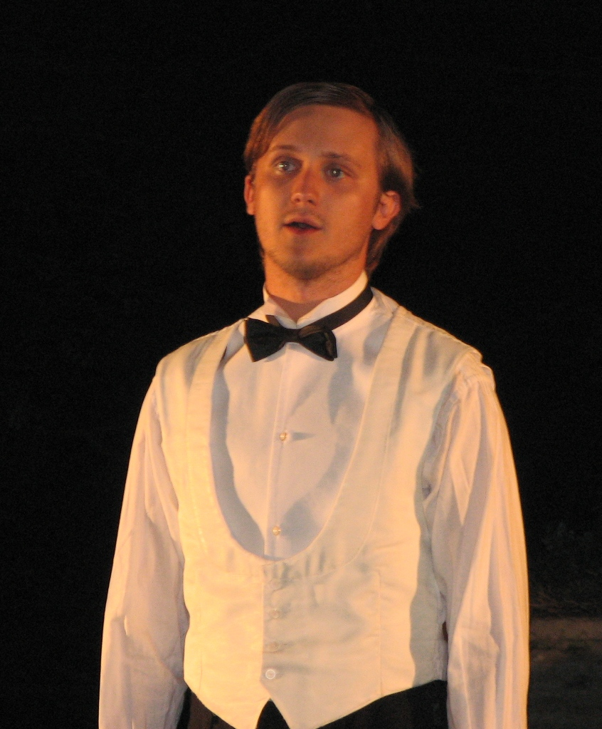 Mikk Jürjes performing in open air show